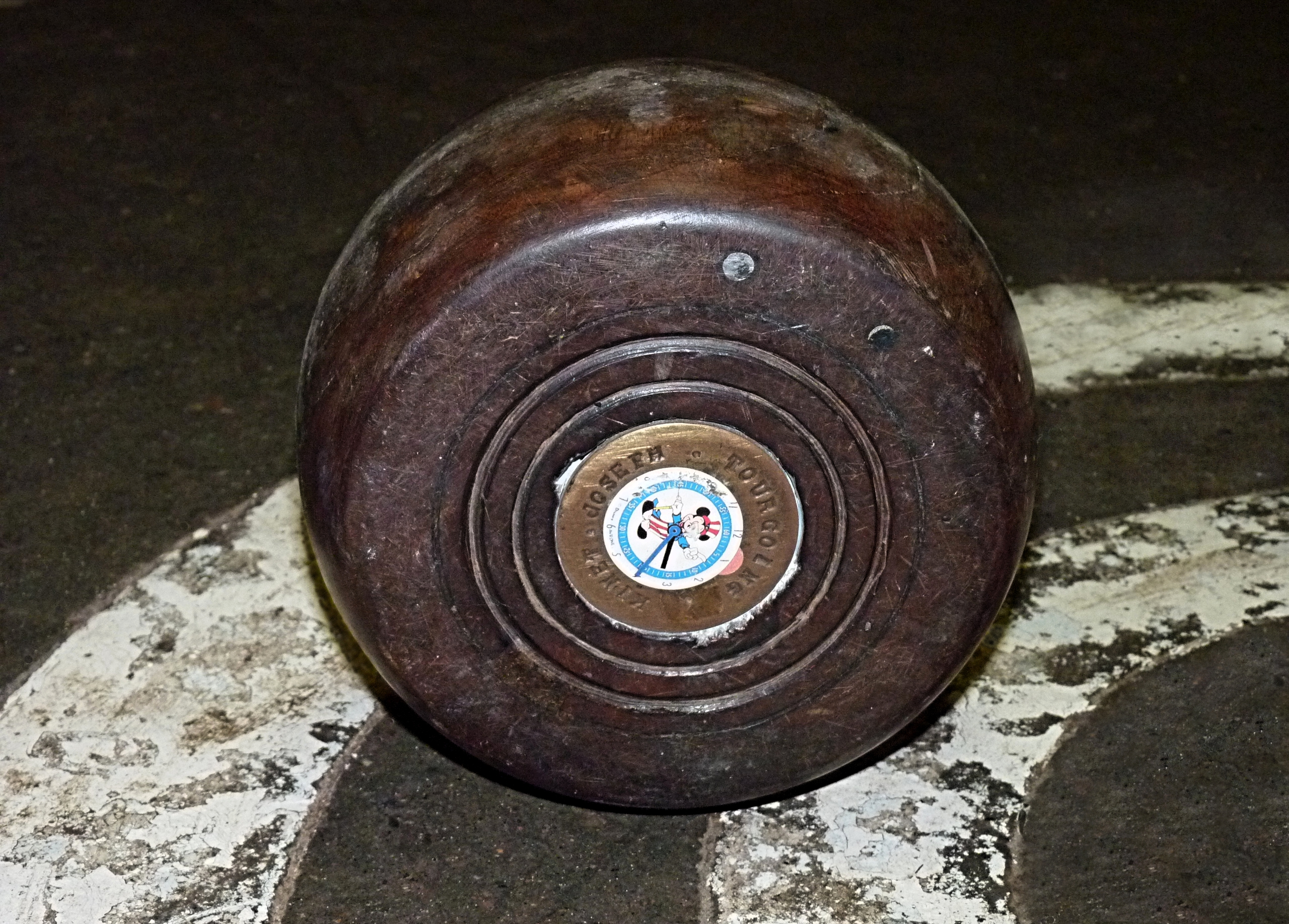 Bourle (kind of bowl) in walnut, wich weighs approximately 2 kg. Used in Tourcoing (Nord), France.